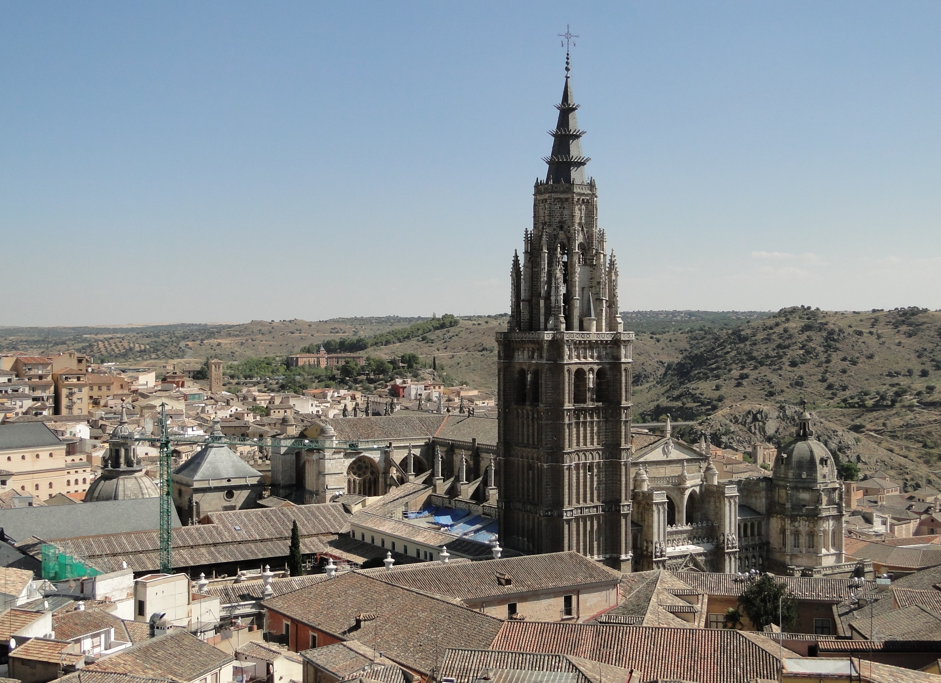 Cathedral of Toledo seen from the bell tower of the Church of San Ildefonso, Toledo, Spain